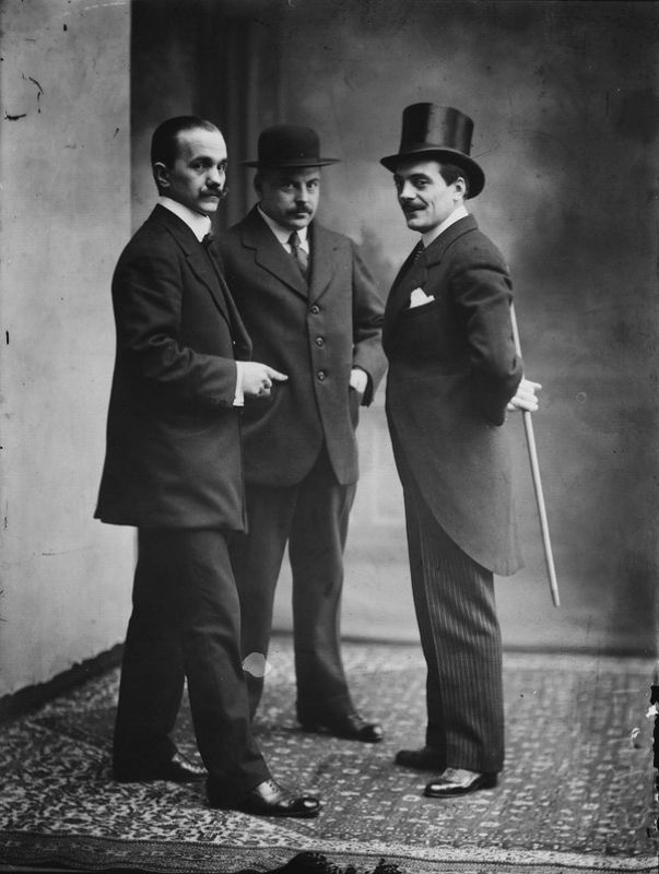 Stood from the left to the right: russian photographer Alexander Bulla (1881-1934), unknown man, Max Linder (1883-1925). 1914